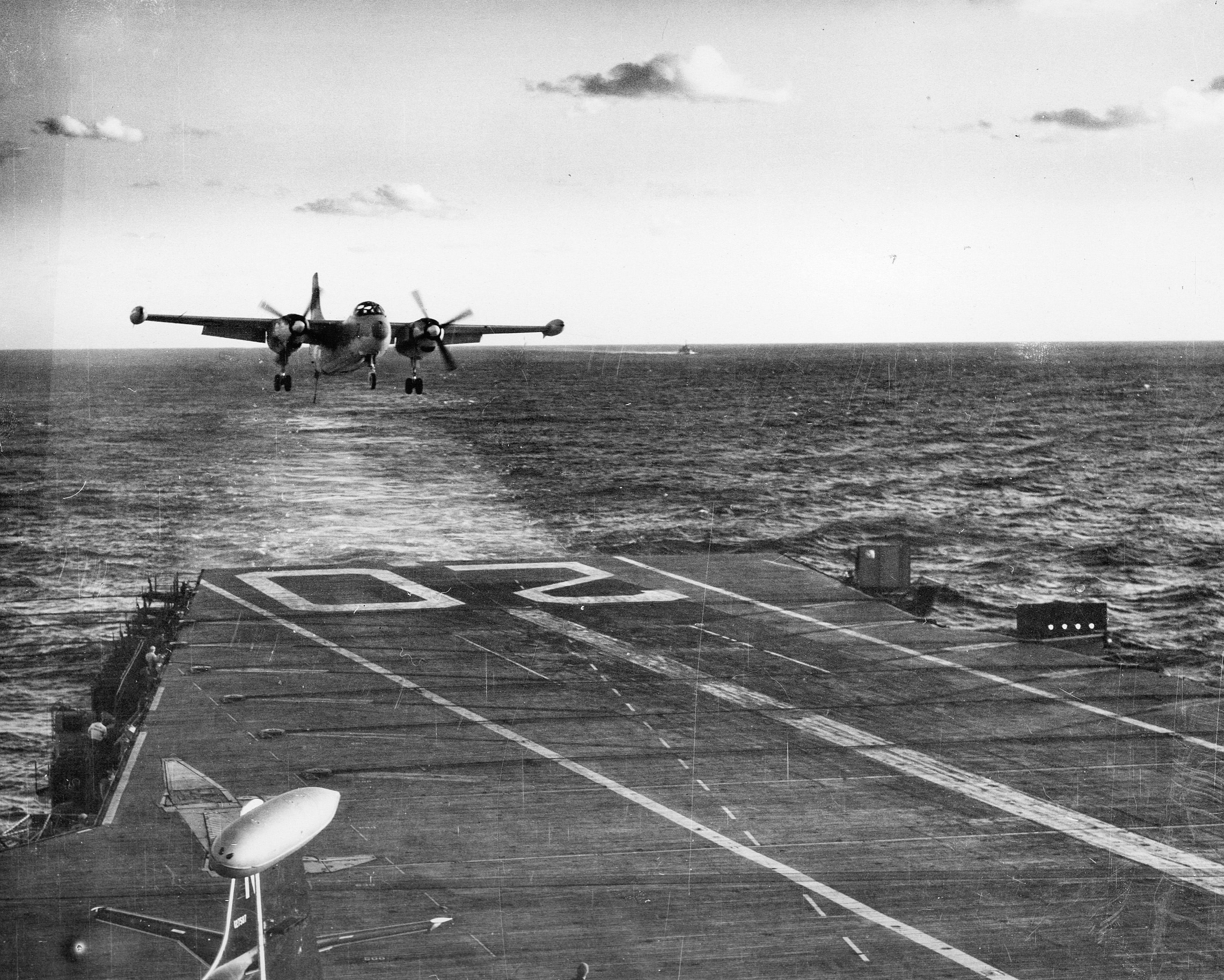 A U.S. Navy North American AJ-2 Savage of heavy attack squadron VAH-6 Det.N Fleurs landing on the aircraft carrier USS Bennington (CVA-20). VAH-6 Det.N was assigned to Air Task Group 181 (ATG-181) for a deployment to the Western Pacific from 15 October 1956 to 22 May 1957.